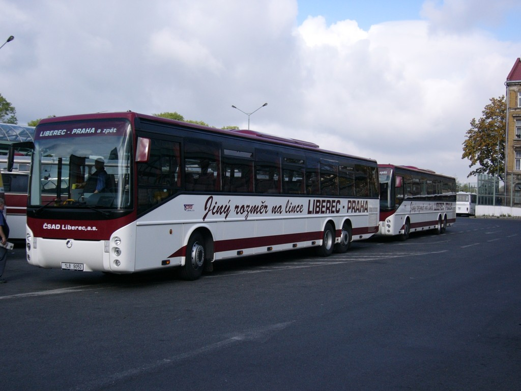 Two buses Irisbus Ares 15.8m in Liberec (CZE)